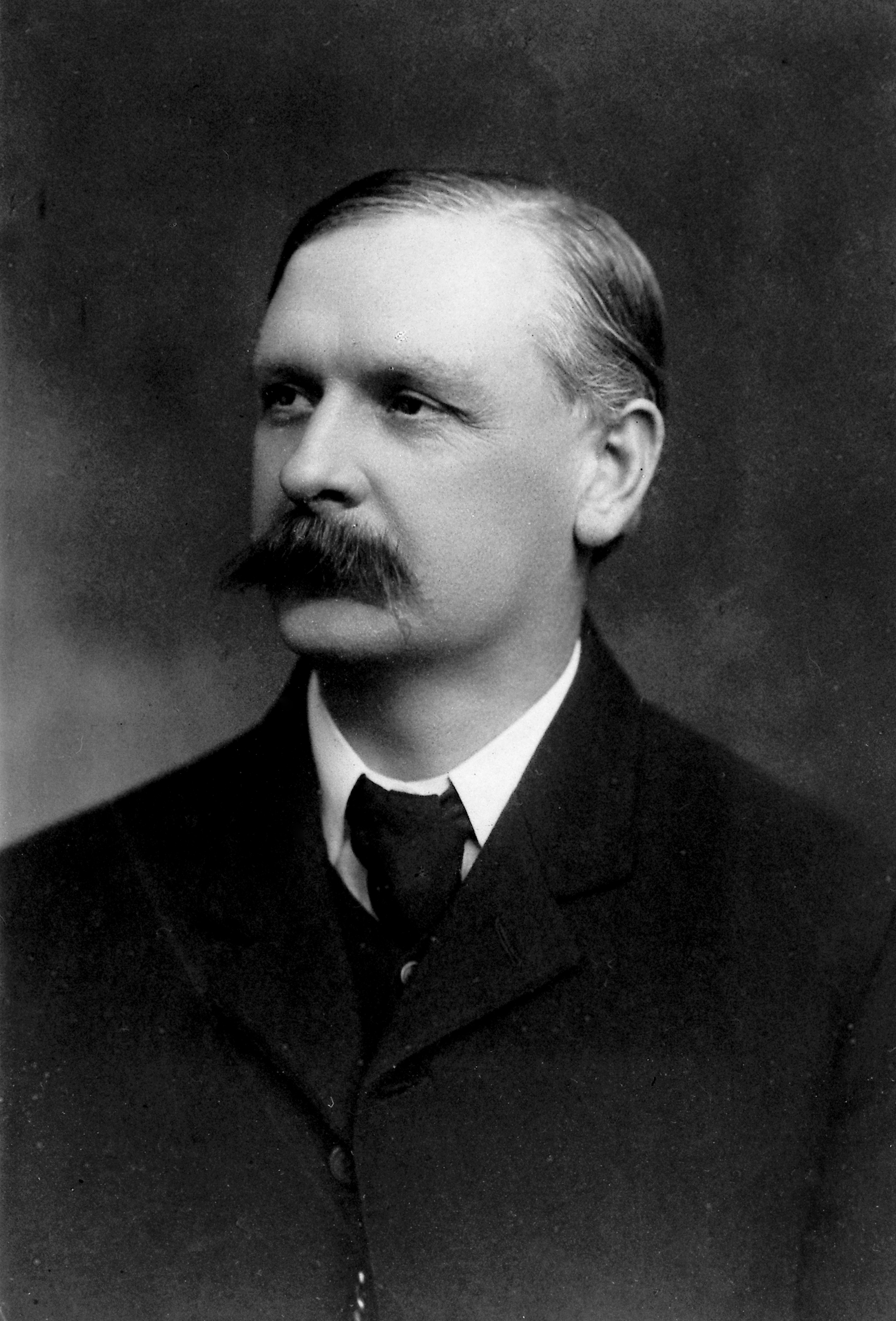 Portrait of Sir L.E. Hill,, 1866-1952. Source unrecorded. Wellcome Images Keywords: Leonard Erskine Hill